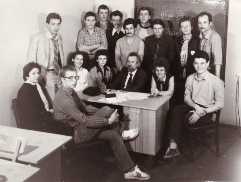 Scholarly Seminar of B. A. Grushin